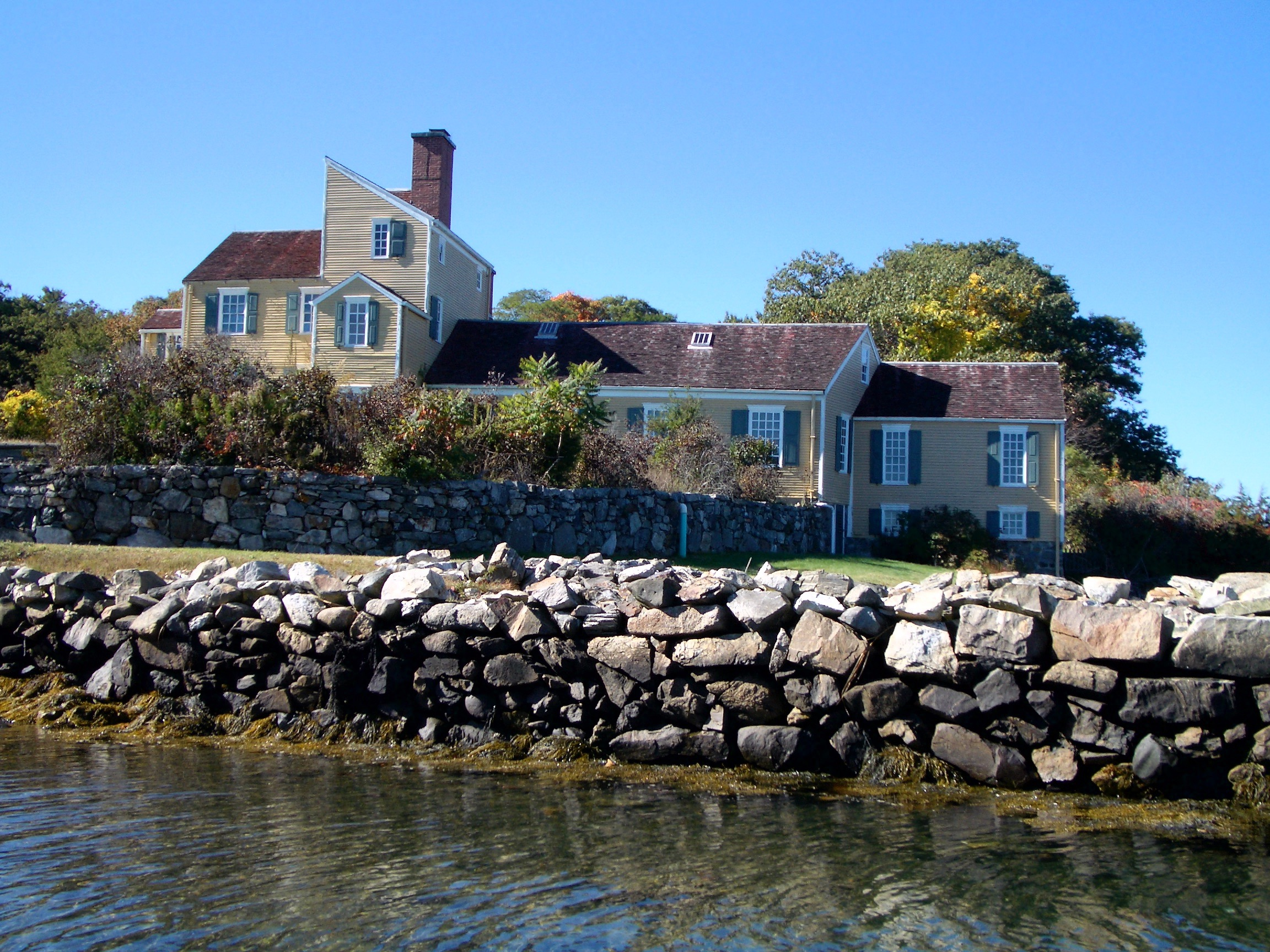 Wentworth-Coolidge Mansion, Portsmouth, New Hampshire, USA, view from the water, showing early-twentieth-century Coolidge-era guest wing at far right